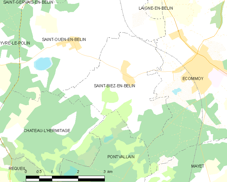 Map of French municipality